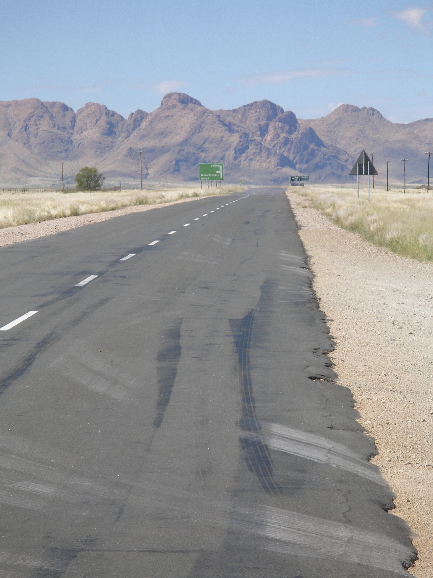 B1 between Keetmanshoop and Grünau, South Namibia.